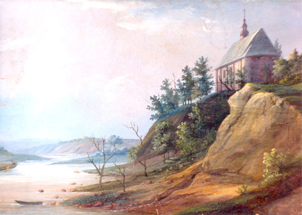 Church of St. Boris and Gleb in Hrodna - watercolor painting